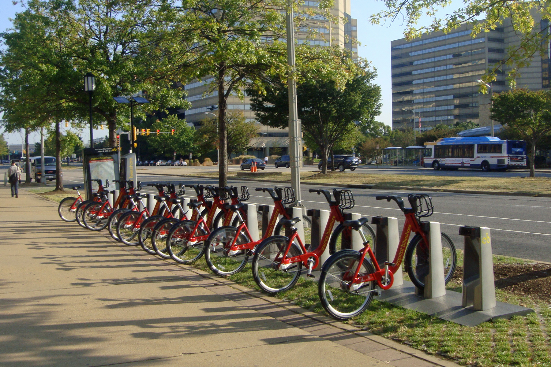 Capital Bikeshare rental site near Pentagon City Metro St, Pentagon City, Arlington, VA. The station is powered by solar panels (shown at the far left).